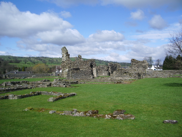 Sawley Abbey